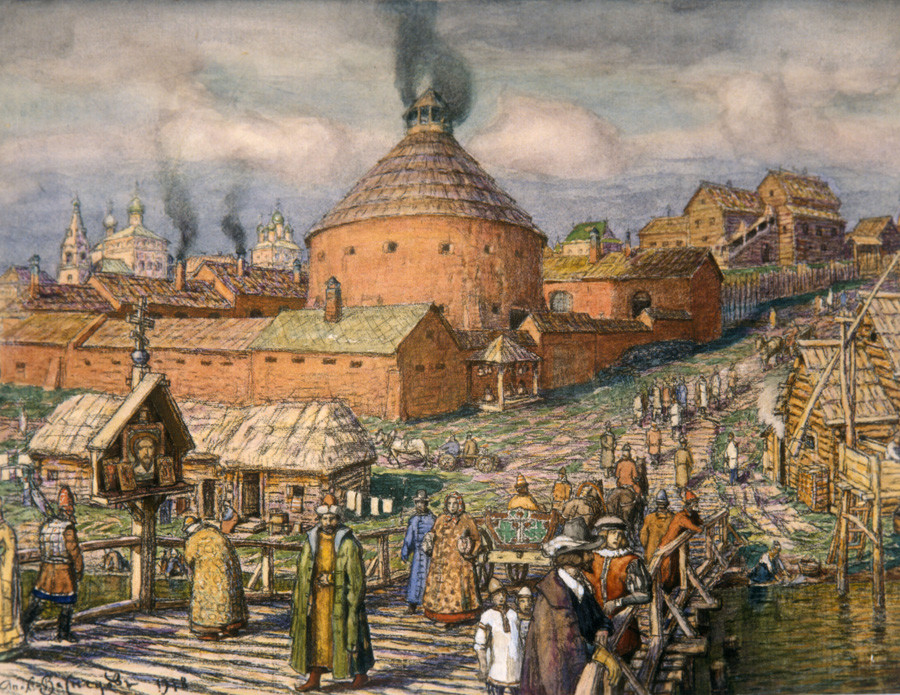 Pushechno-Liteyny dvor